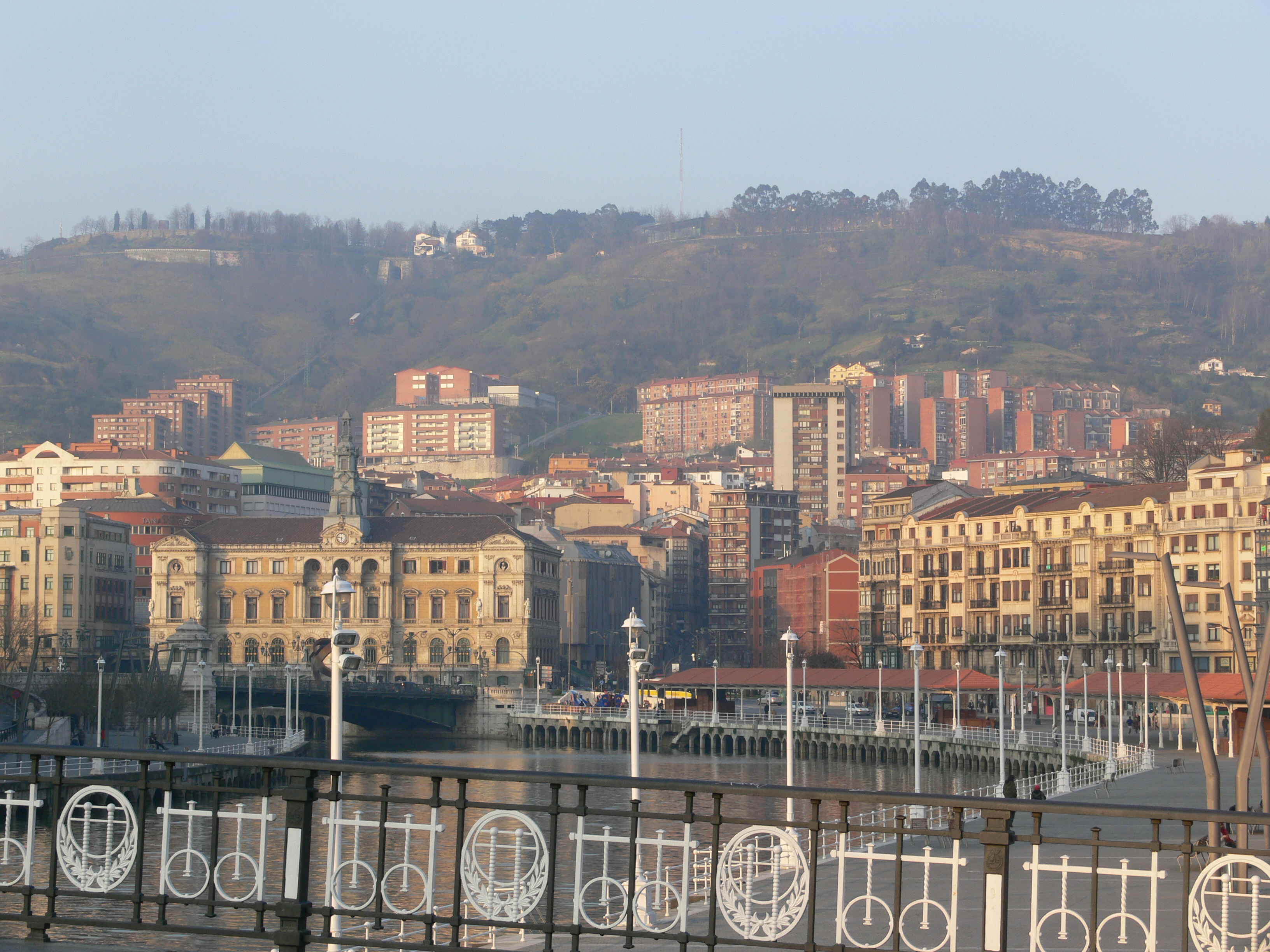 Nervión river in Bilbao, seen from the Puente del Arenal.